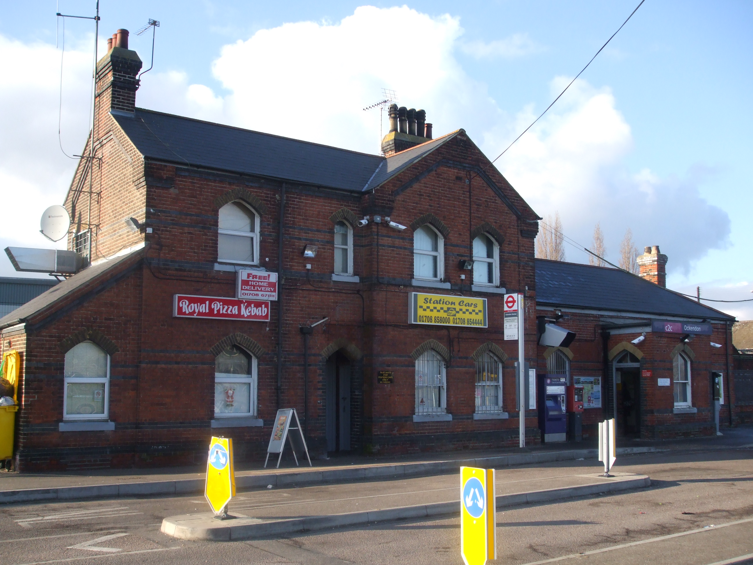 Ockendon station building